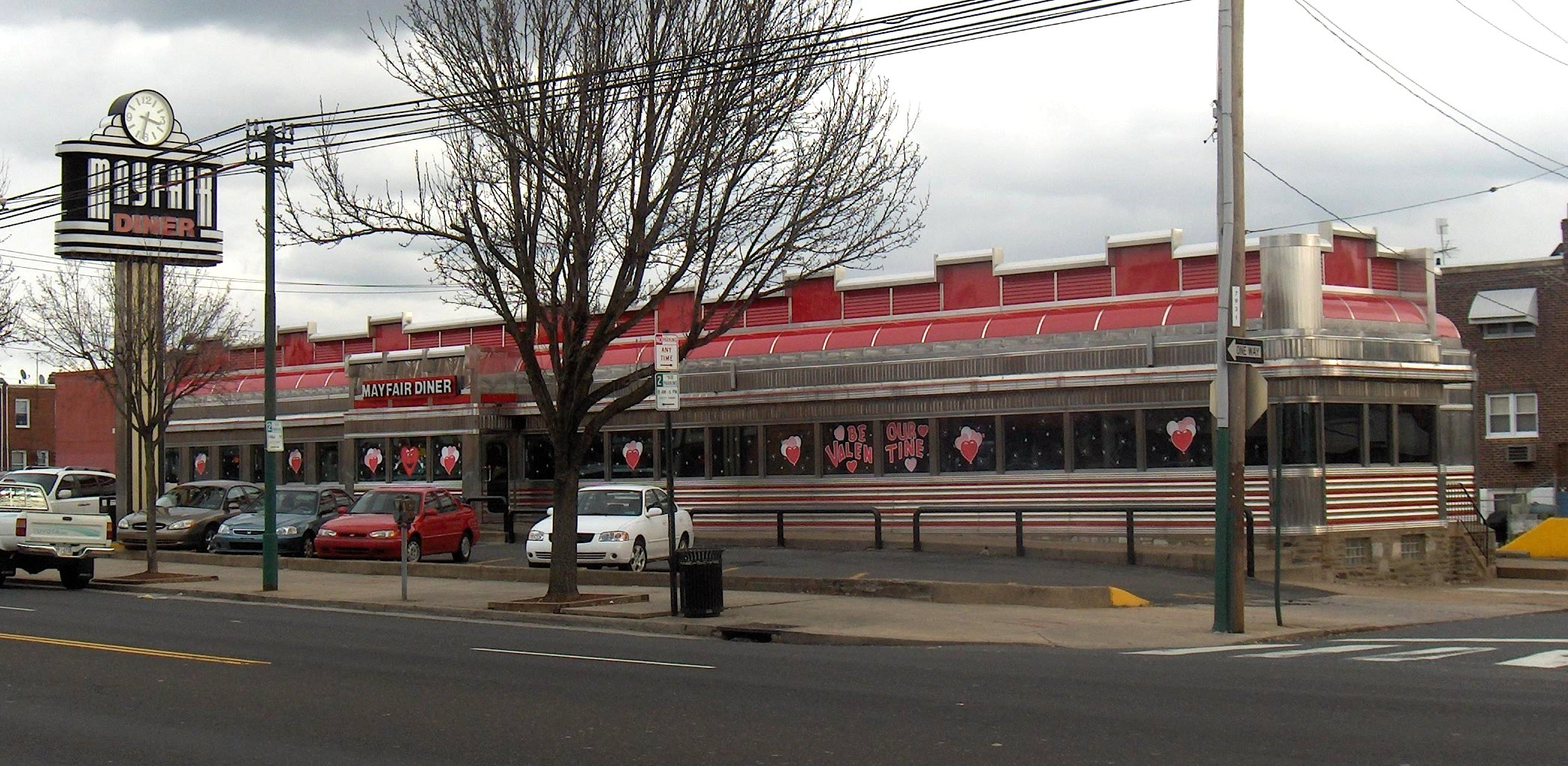 Mayfair Diner, 7373 Frankford Avenue, Philadelphia, PA 19136, built by Jerry O'Mahony, Inc., of Elizabeth, NJ in the 1950’s, but the diner has operated since 1932. One of the longest manufactured diners anywhere. Exterior looking east.